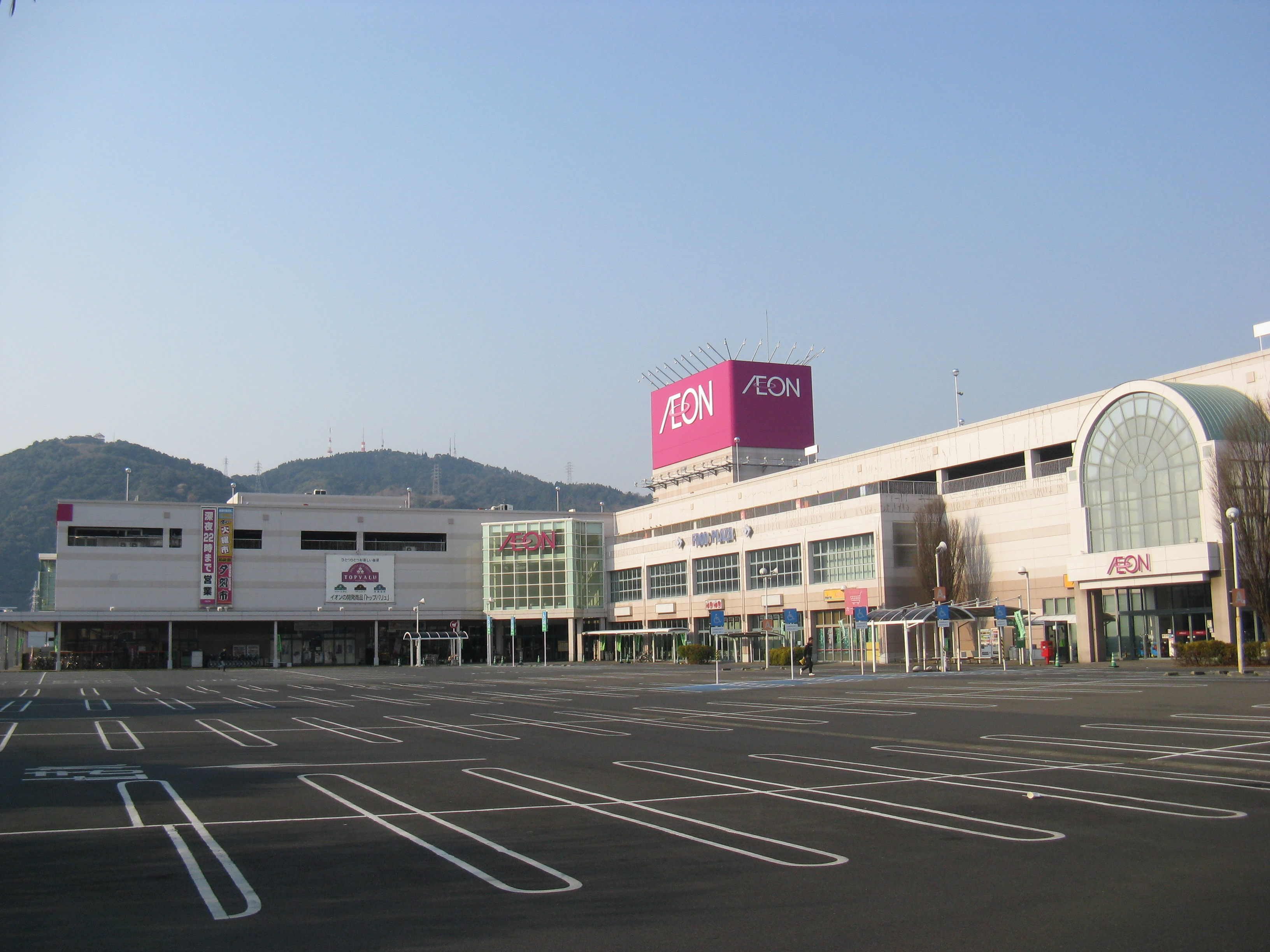 ÆON NOBEOKA SHOPPING CENTER